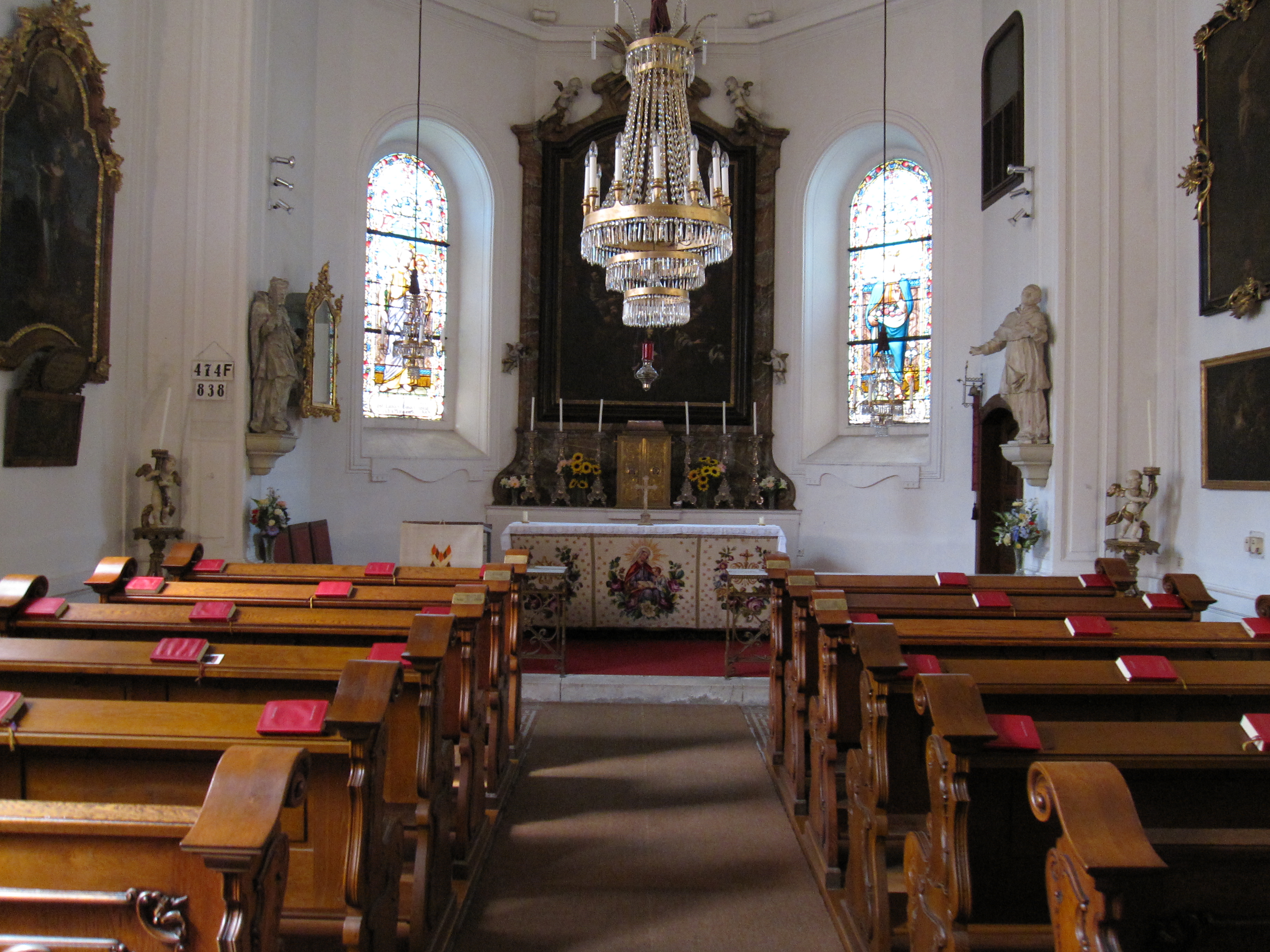 St. Anne's Chapel in Dornbach, Vienna